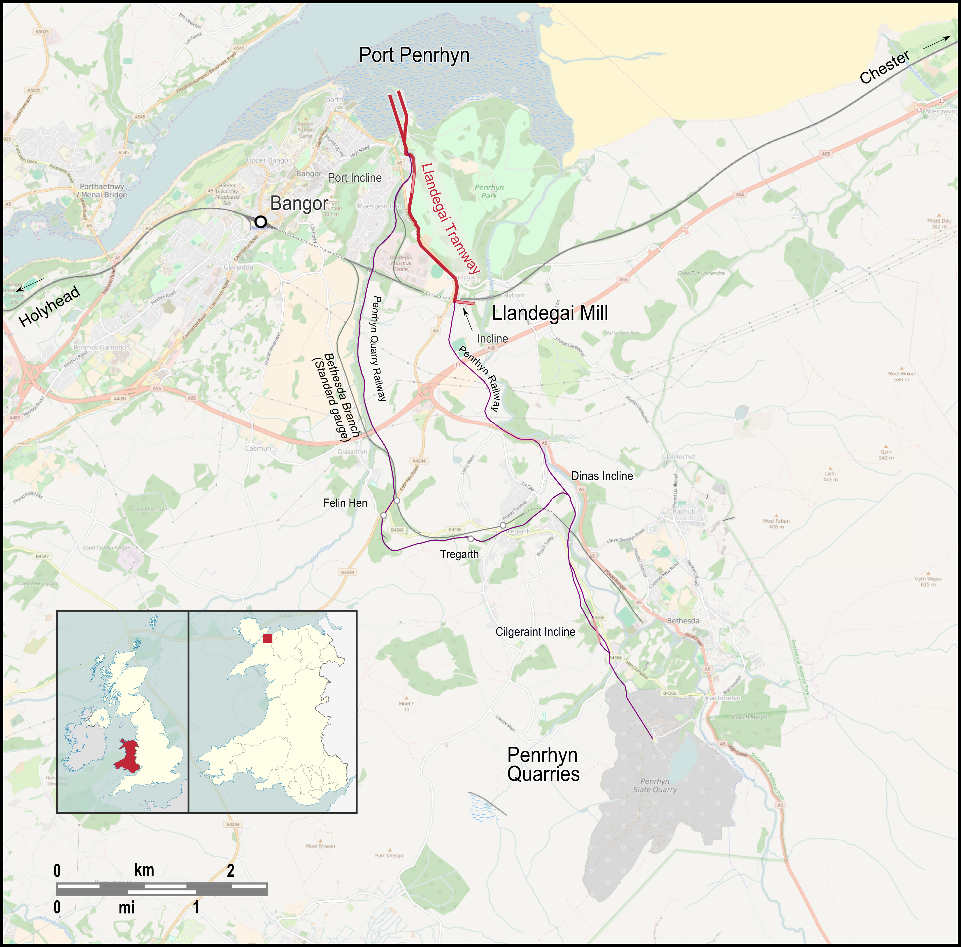 Map of Llandegai Tramway, English labels